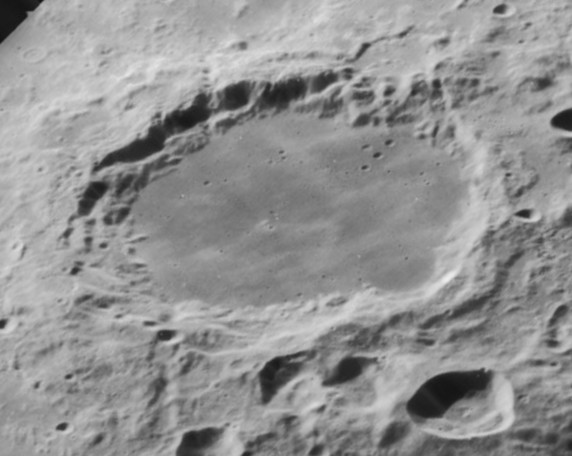 Oblique view facing west of Endymion, on the moon.